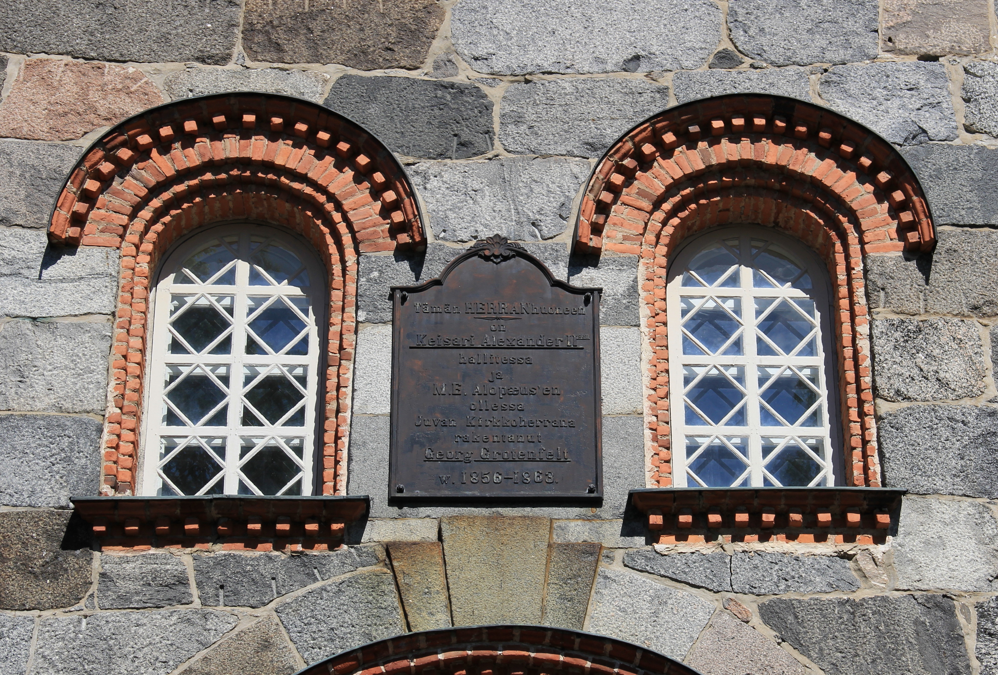 Juva church, Juva, Finland. - Stone church, designed by architects Ernst Lohrmann and Carl Albert Edelfelt. Completed in 1863. - Tower windows and a plaque telling the names of the emperor, parish vicar and the builder of church.